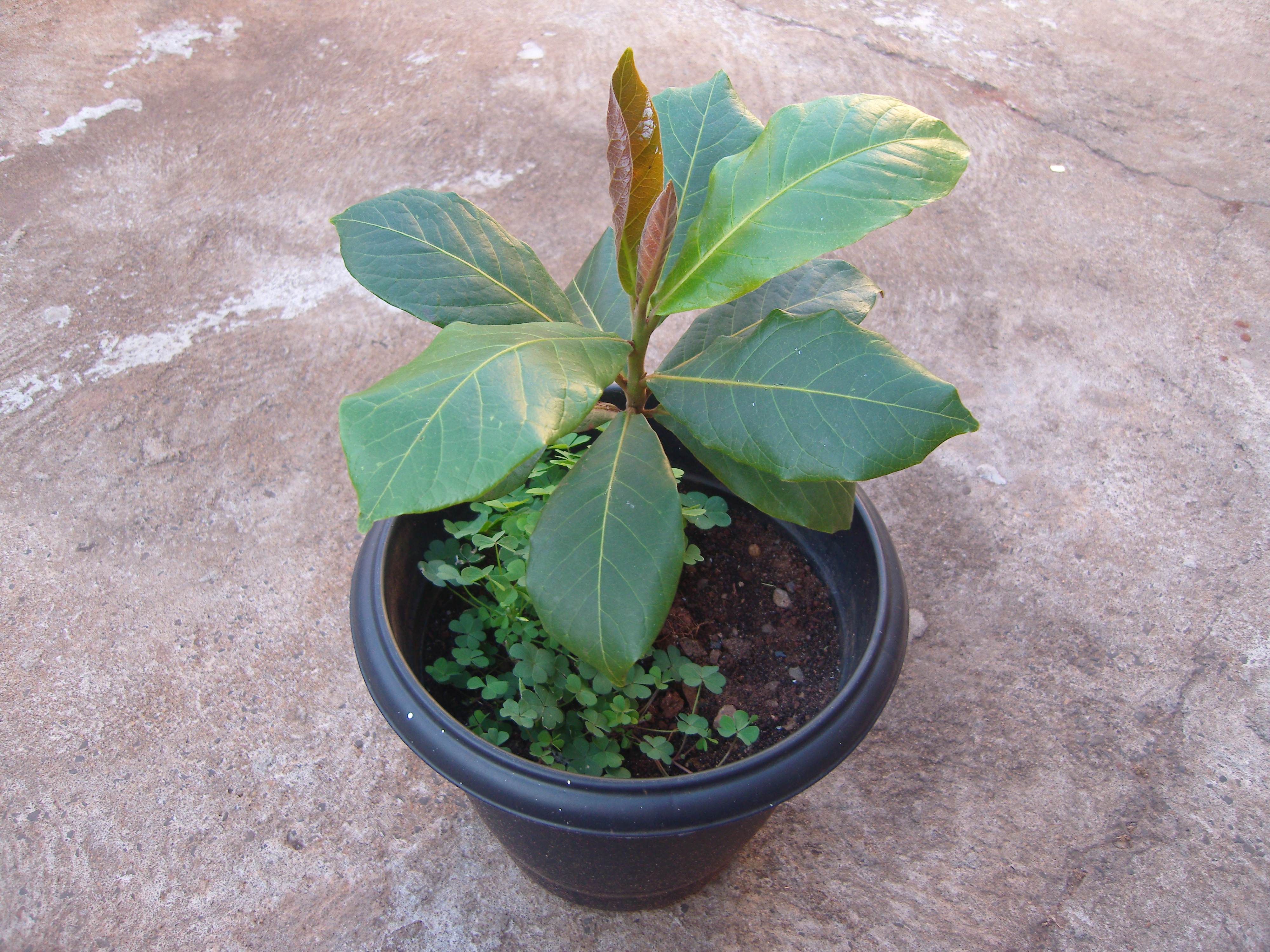 A Terminalia catappa in a vase as a decorative plant.